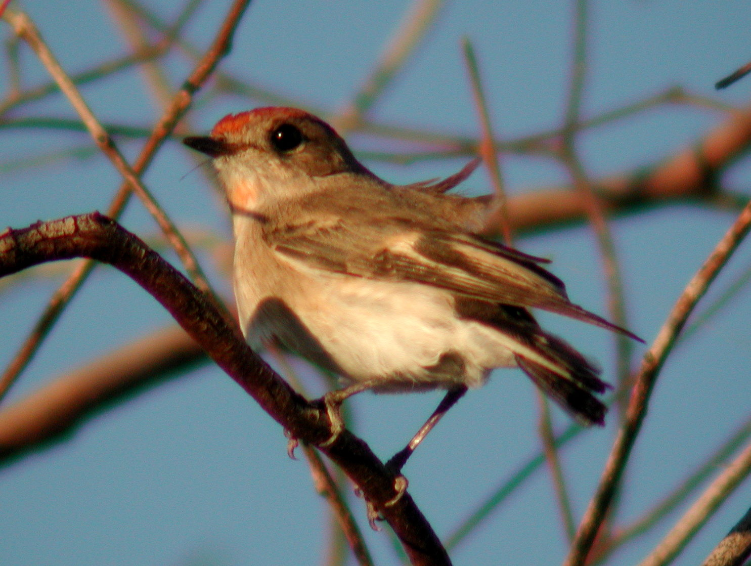 Red-capped Robin (Petroica goodenovii) female Currawinya NP, SW Queensland, Australia